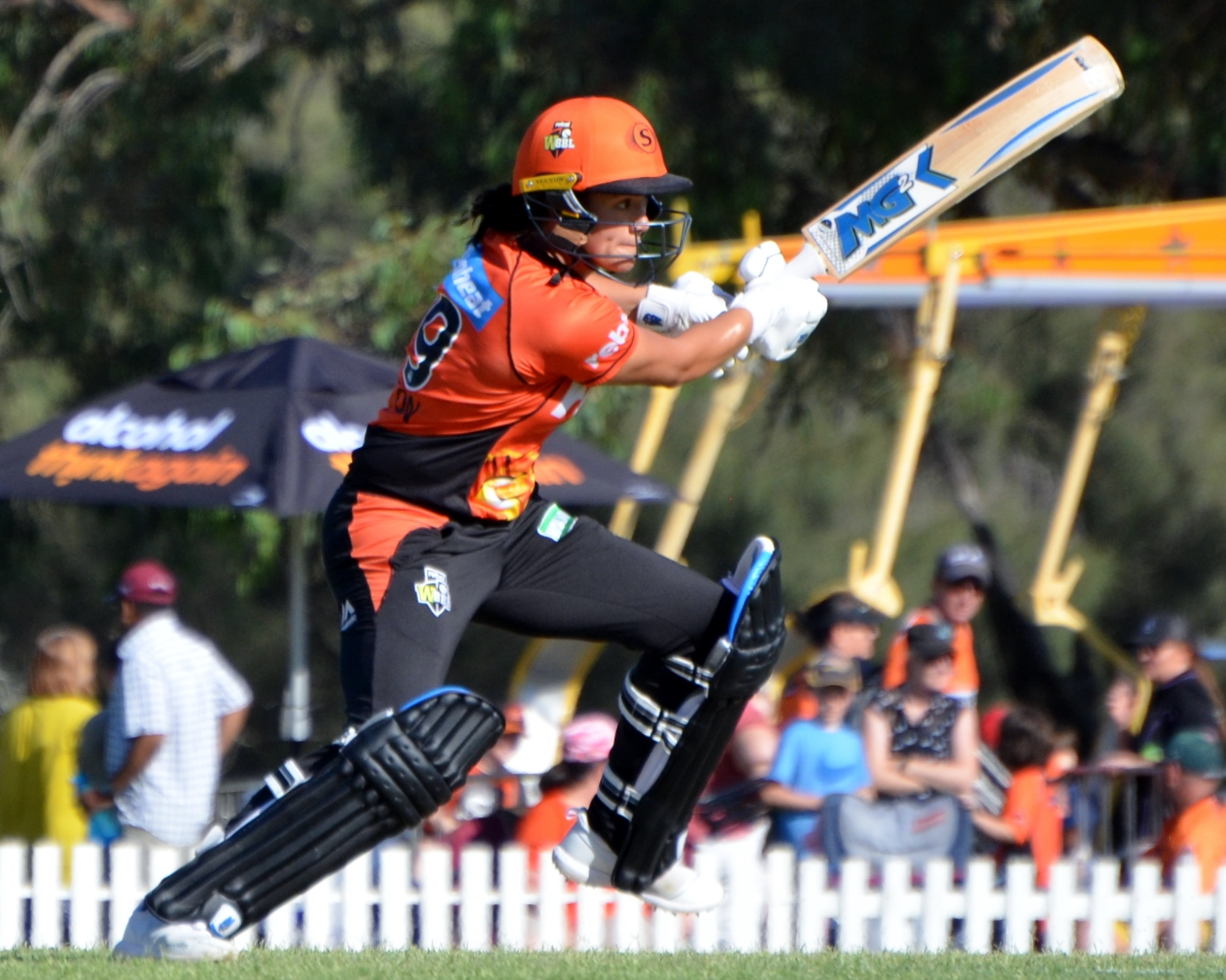 Thamsyn Newton batting for the Perth Scorchers against the Hobart Hurricanes, in a WBBL match at Lilac Hill Park in Perth